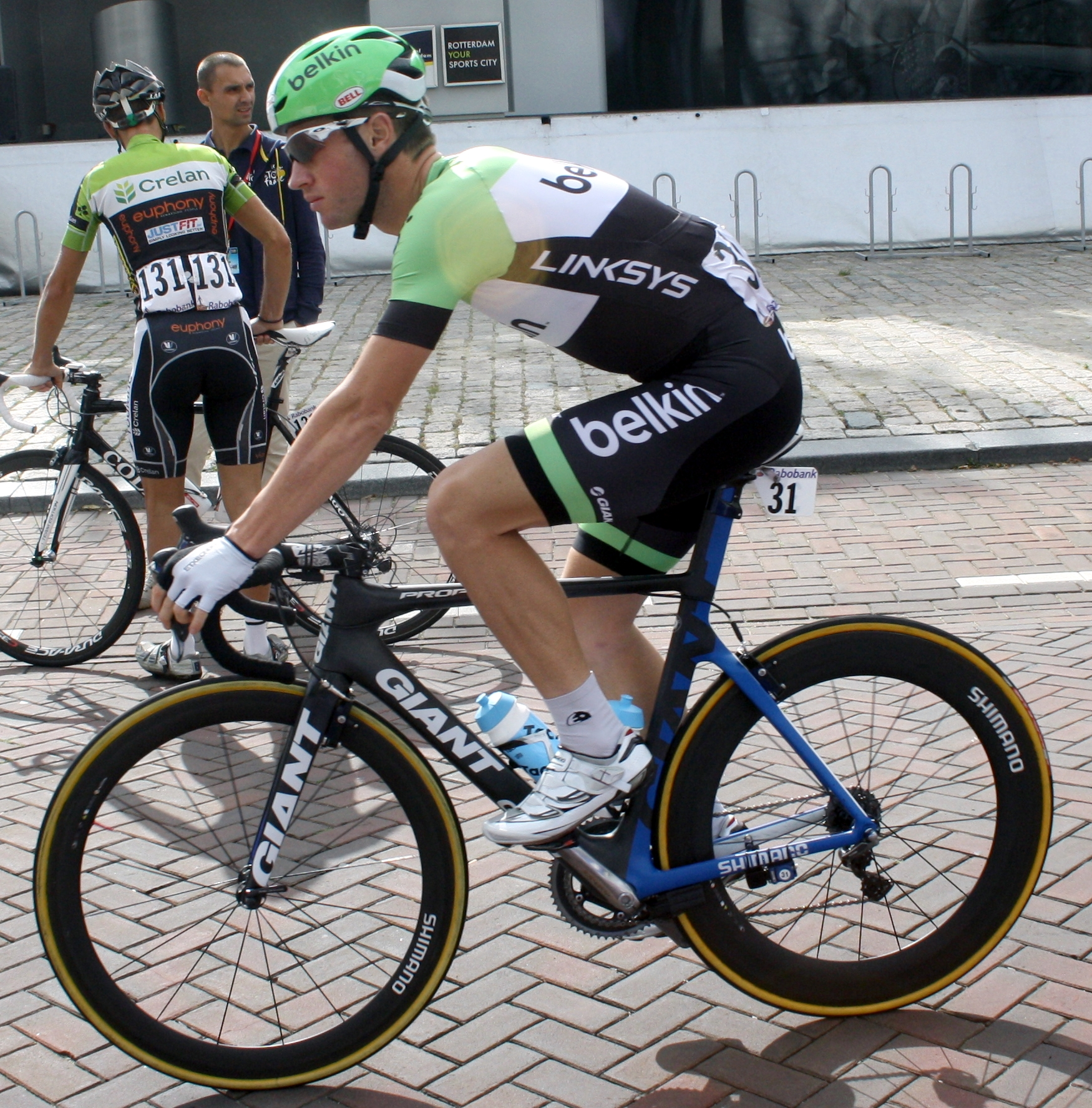 Mark Renshaw before the start of stage 2 of the World Ports Classic 2013